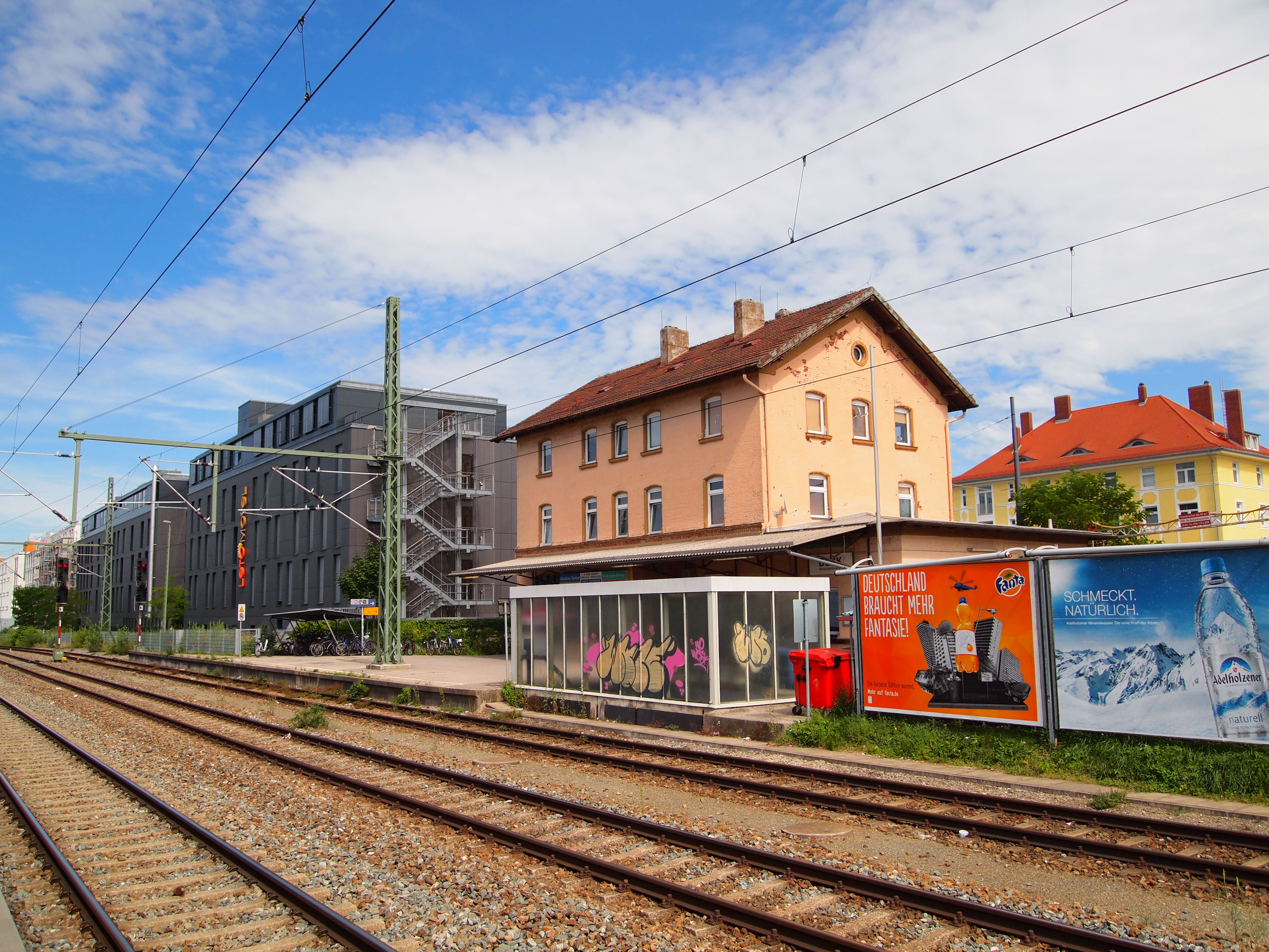 View from Moosach station, Munich.This photograph was taken with an Olympus E-PL1